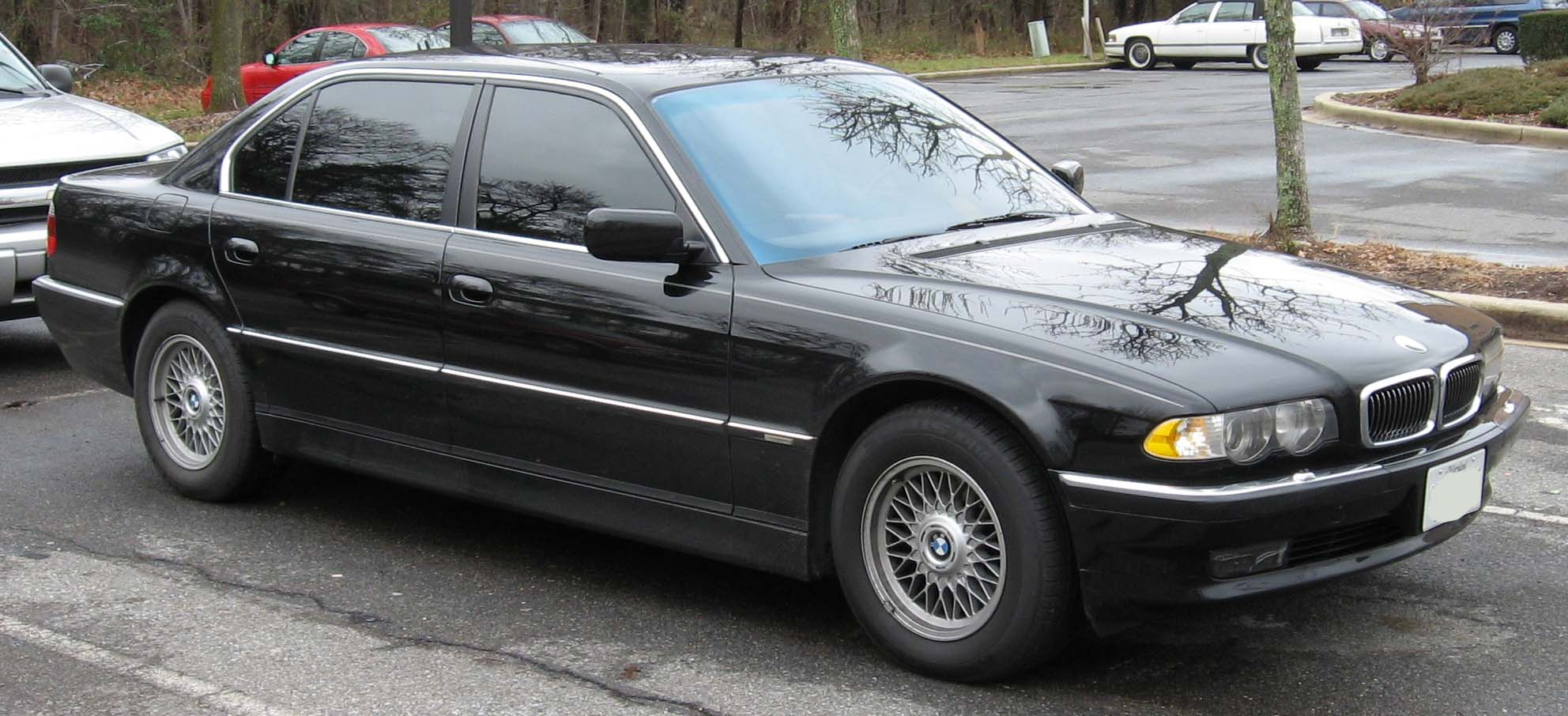 1998-2001 BMW 7-Series photographed in USA.